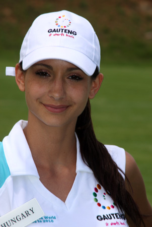 Miss Hungary Szilvia Freire during the sports day in Miss World 08